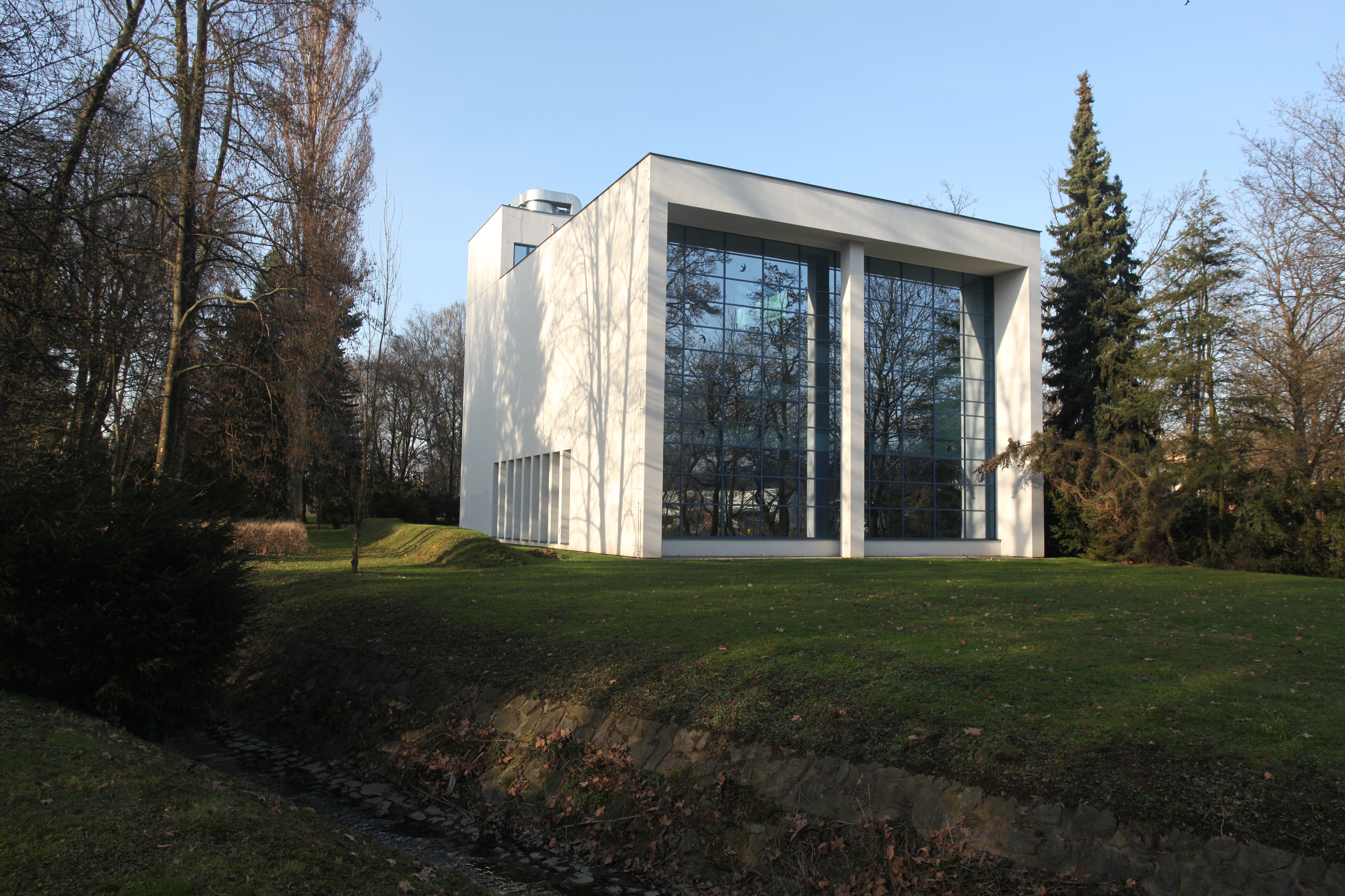 Anthropos pavilion in Brno, southern facade